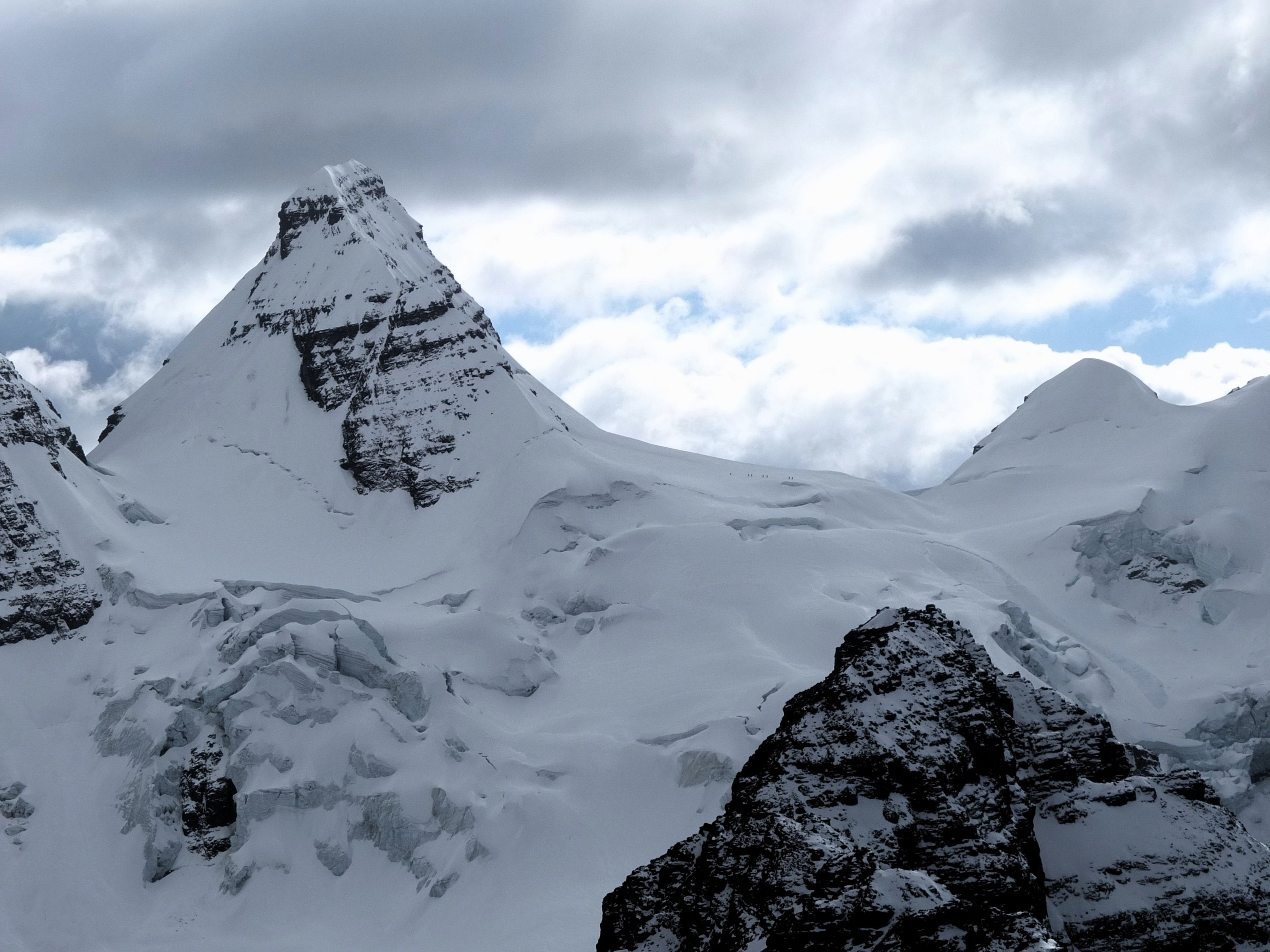 Condoriri (Cabeza de Condor) and a mountaineering group during the ascent on the glacier as seen from the summit of Pico Austria. June 2013.